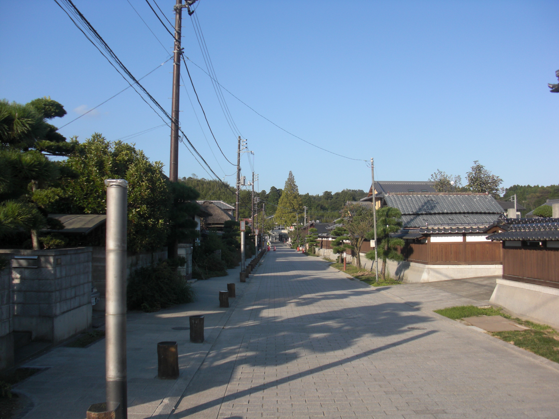 This is the Oyashiki Street in Takahagi, Ibaraki, Japan.